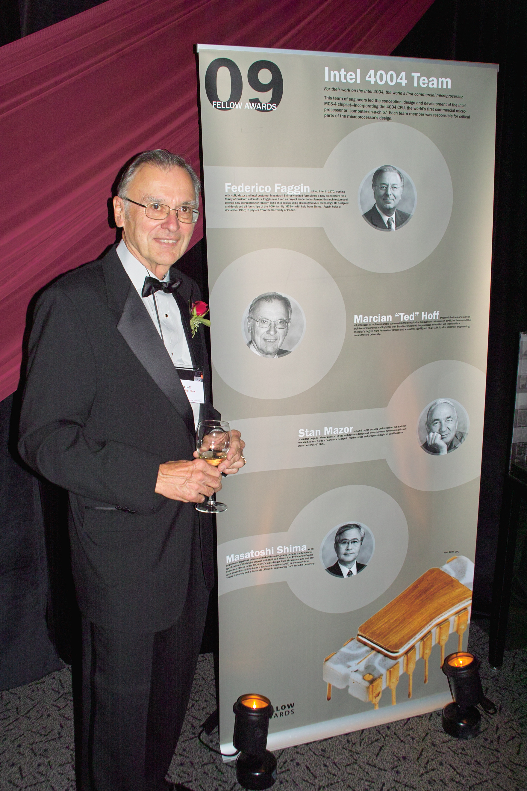 Ted Hoff (Marcian E. Hoff Jr.), at the Computer History Museum's 2009 Fellows Award event, where he was inducted a Fellow.